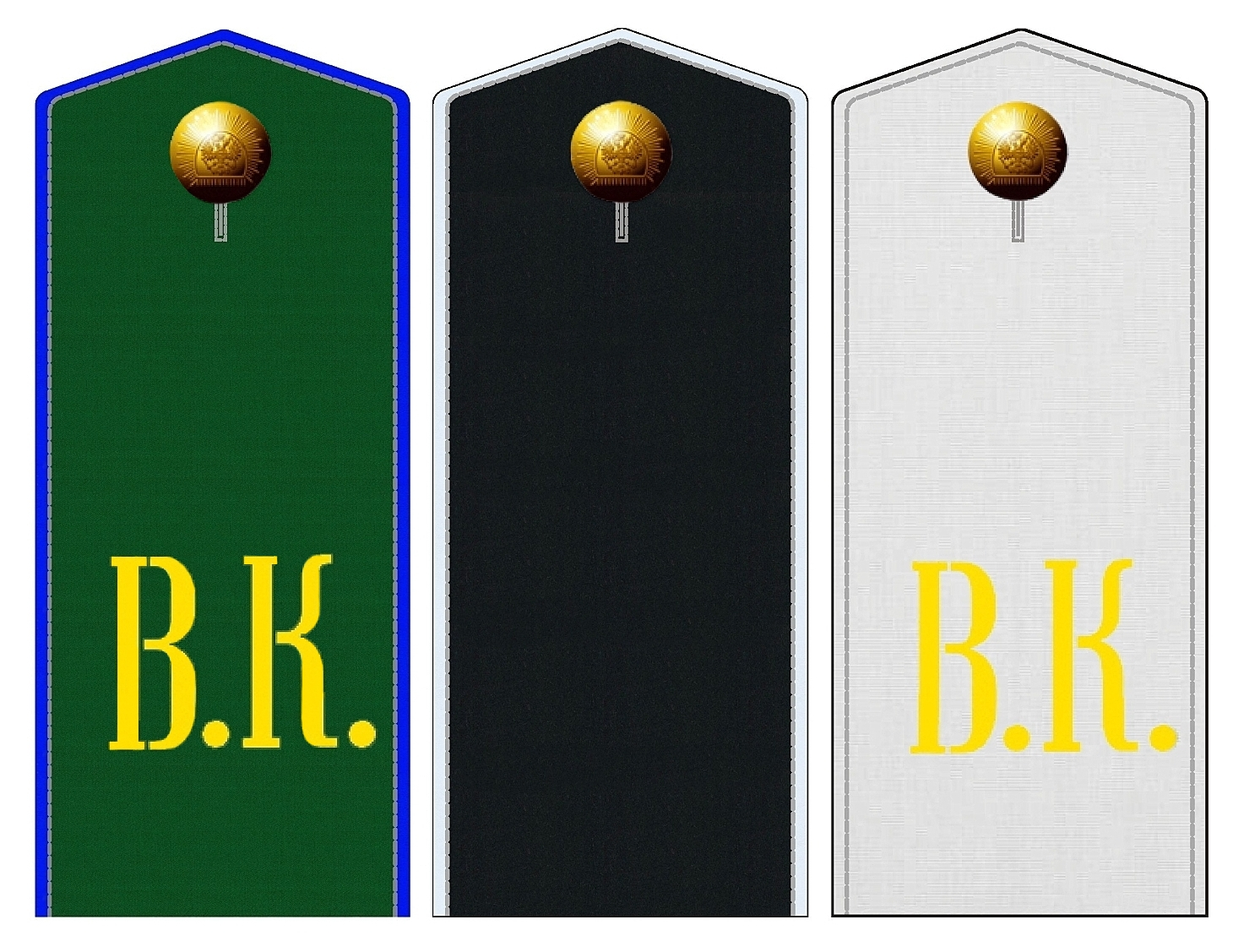 Cadet's shoulder marks of the Grand Duke Vladimir Kiev Cadet Corps (VKKK) (1852—1919)